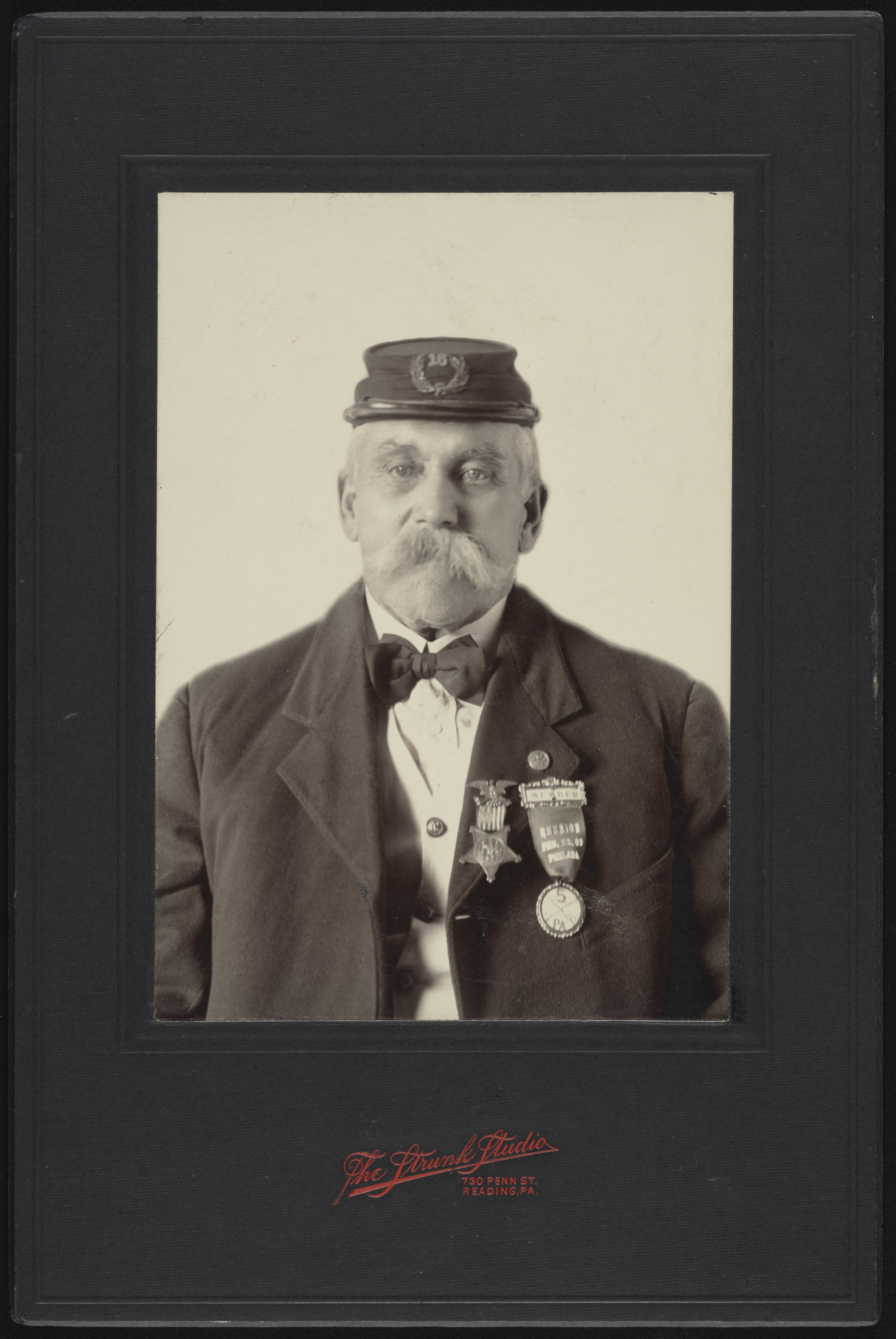 Title: Civil war veteran Peter D. Helms] / The Strunk Studio, 730 Penn St., Reading, Pa Abstract/medium: 1 photograph : gelatin silver print ; sheet 15 x 10 cm, mount 23 x 15 cm.